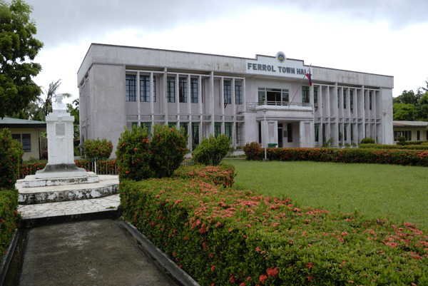 Town Hall of Ferrol, Romblon, Philippines